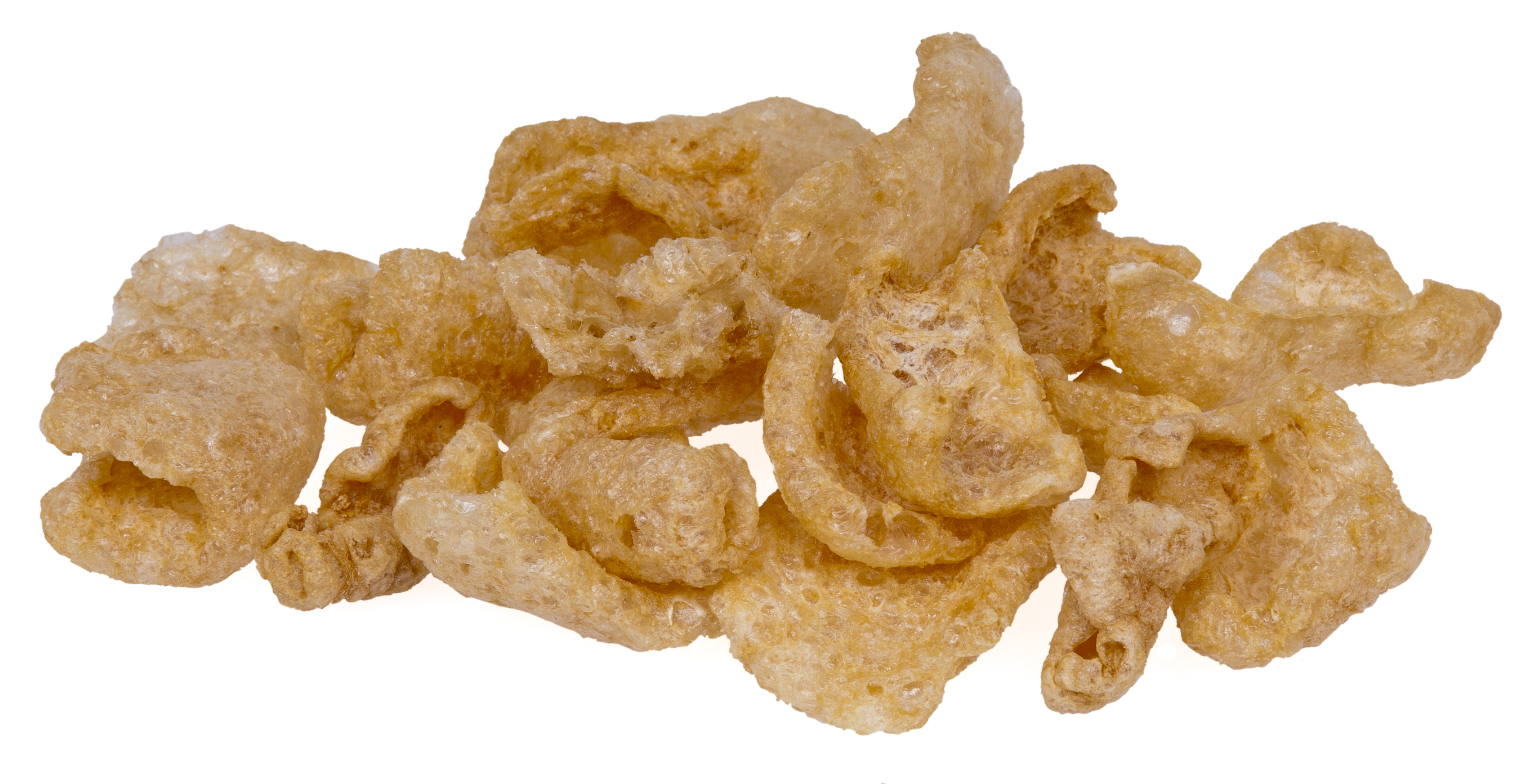 A pile of pork rinds, made by Utz.